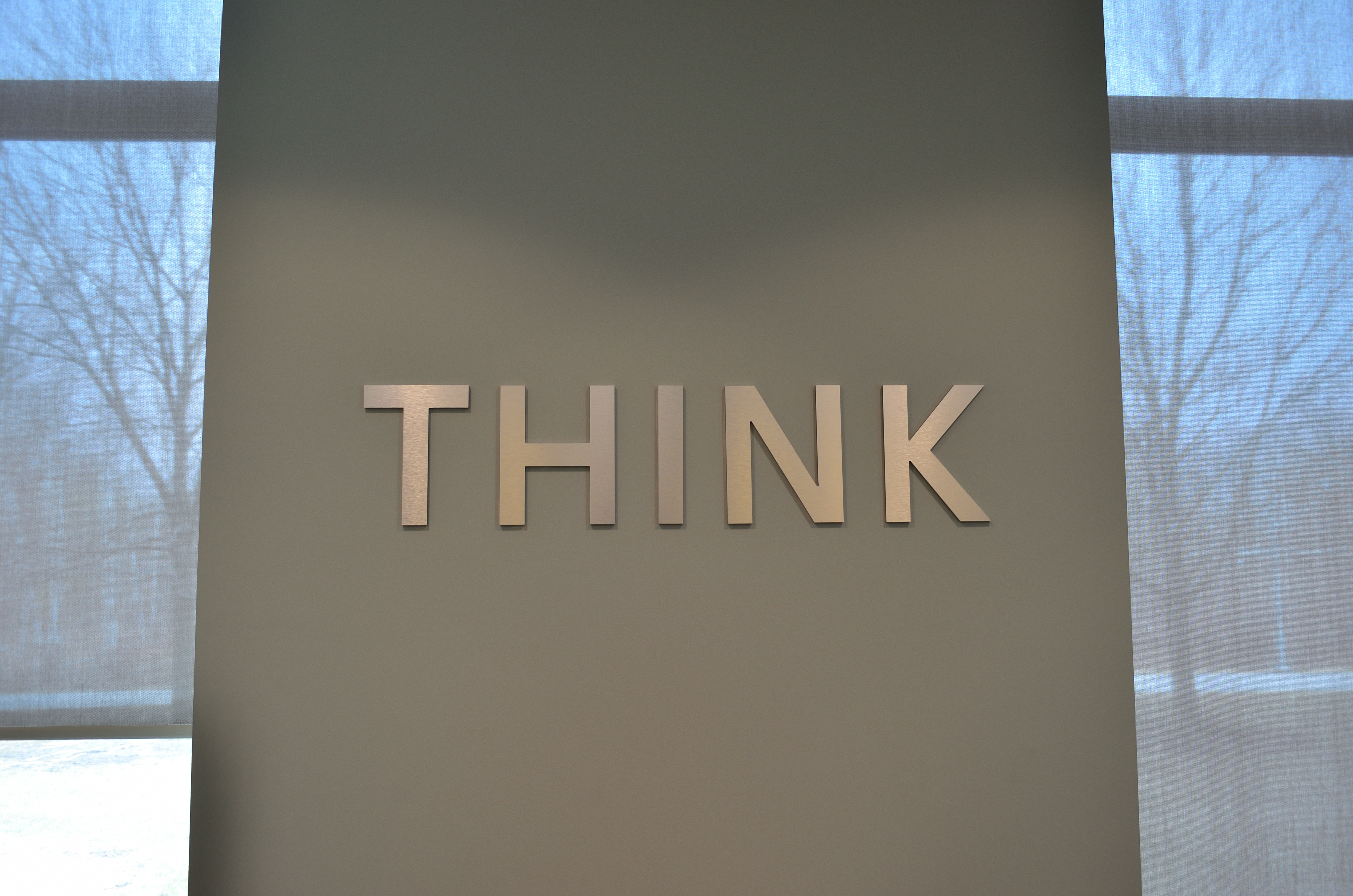 IBM Think sign